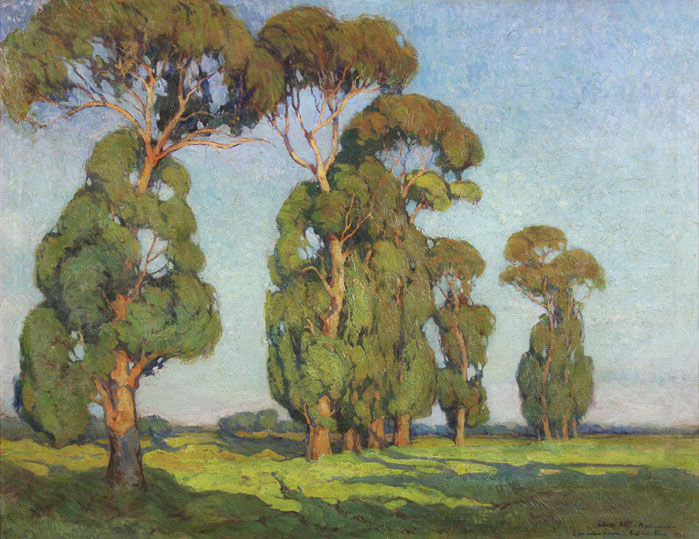 "Los Eucaliptos" painting by Atilio Malinverno